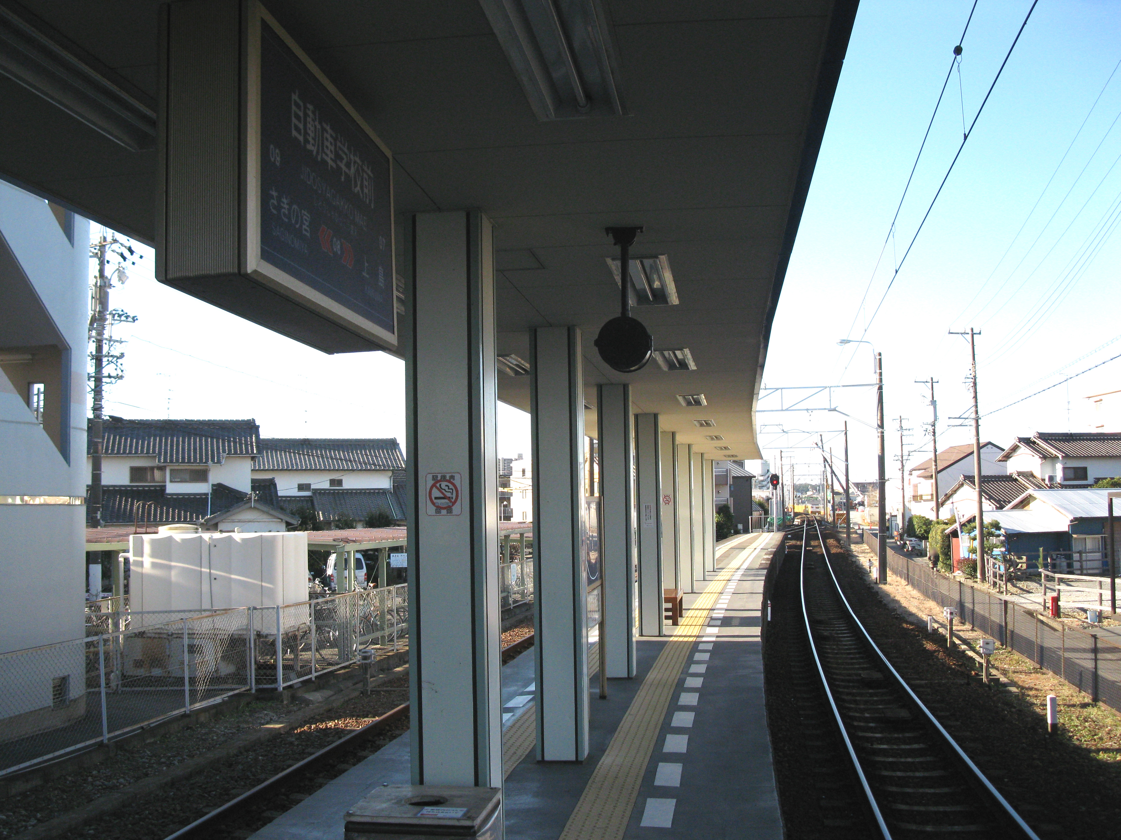 Jidōsha-Gakkō-Mae Station platform (Enshū Railway Line)